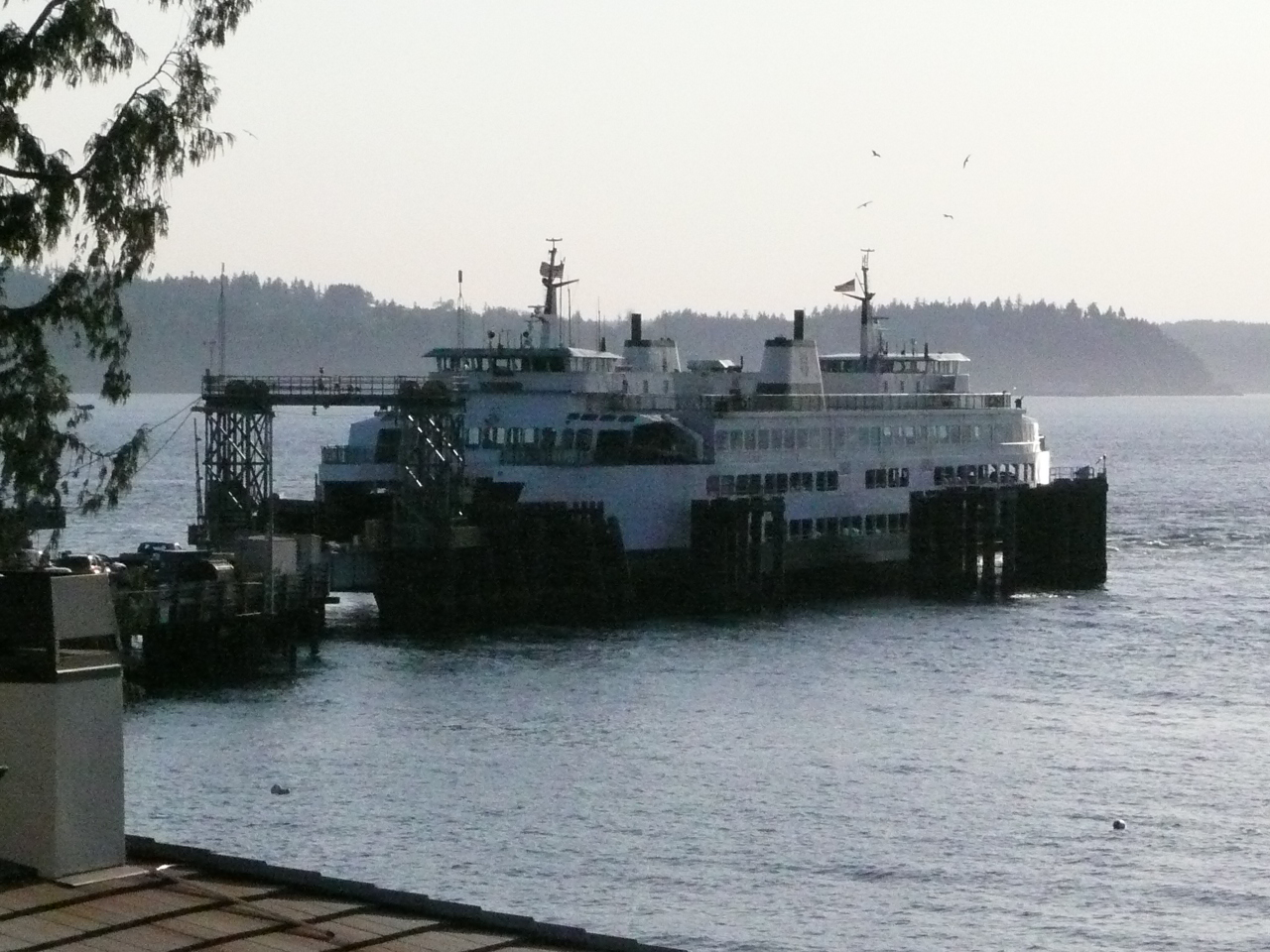 Washington State Ferry at the Fauntleroy Ferry Terminal, Fauntleroy neighborhood, West Seattle, 2011